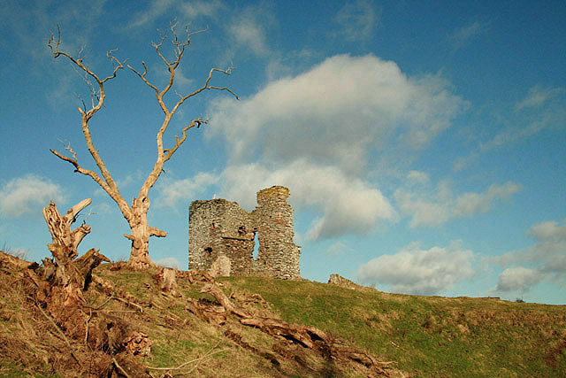 The remains of Old Thirlestane Castle The ruined remains of a 16th century tower house to the west of Boondreigh Water, and the possible site of an early Maitland residence. The tower seems to have been originally oblong on plan and at least three storeys high. It was built shortly before 1572, when it was attacked and burnt by Alexander Home of Crosbie. Rebuilding took place when a stair-turret was added to the west wall, converting the building into a T-plan. (Source: Pevsner Architectural Guides - Borders).